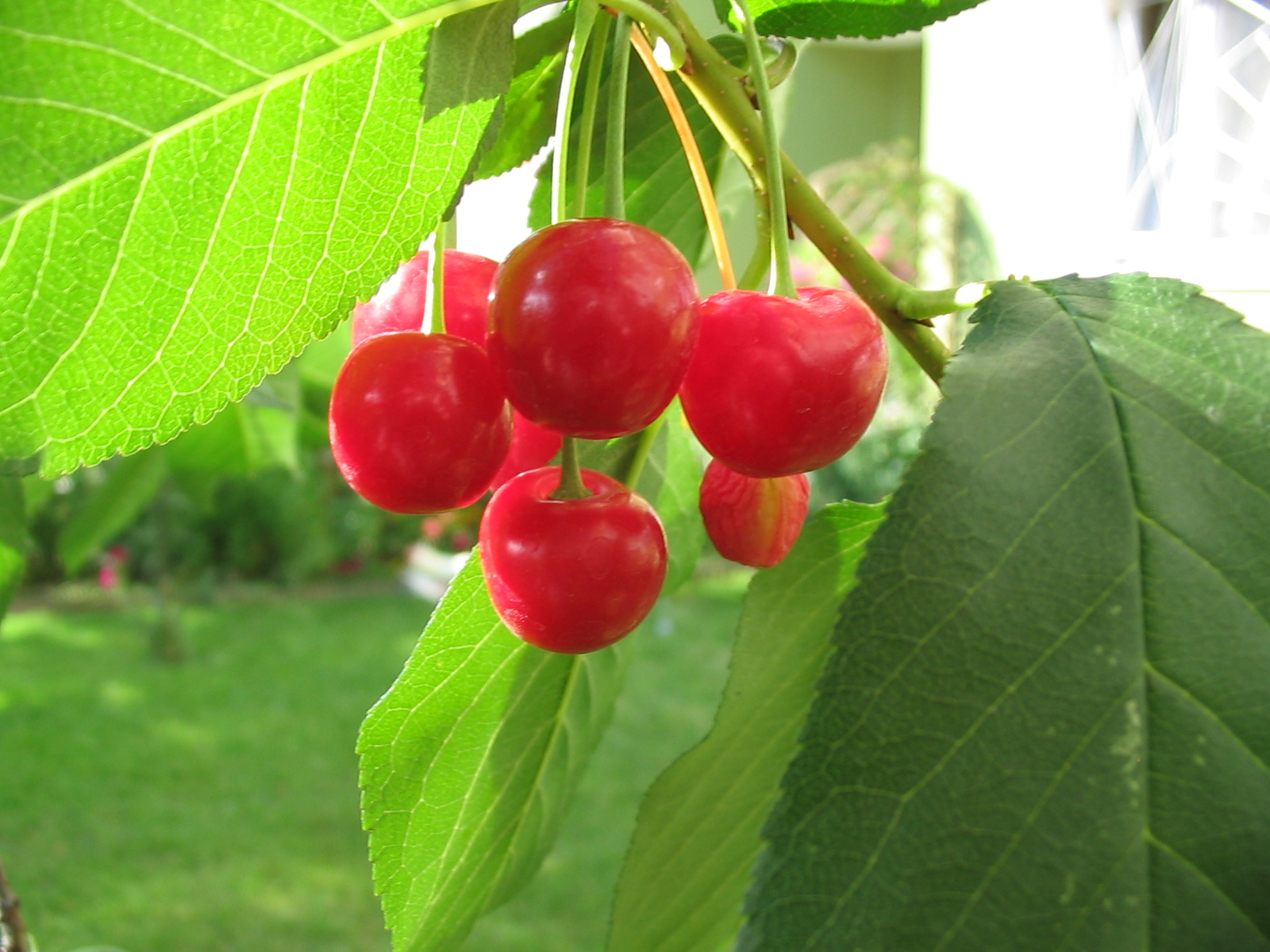 Sour Cherry / cherries